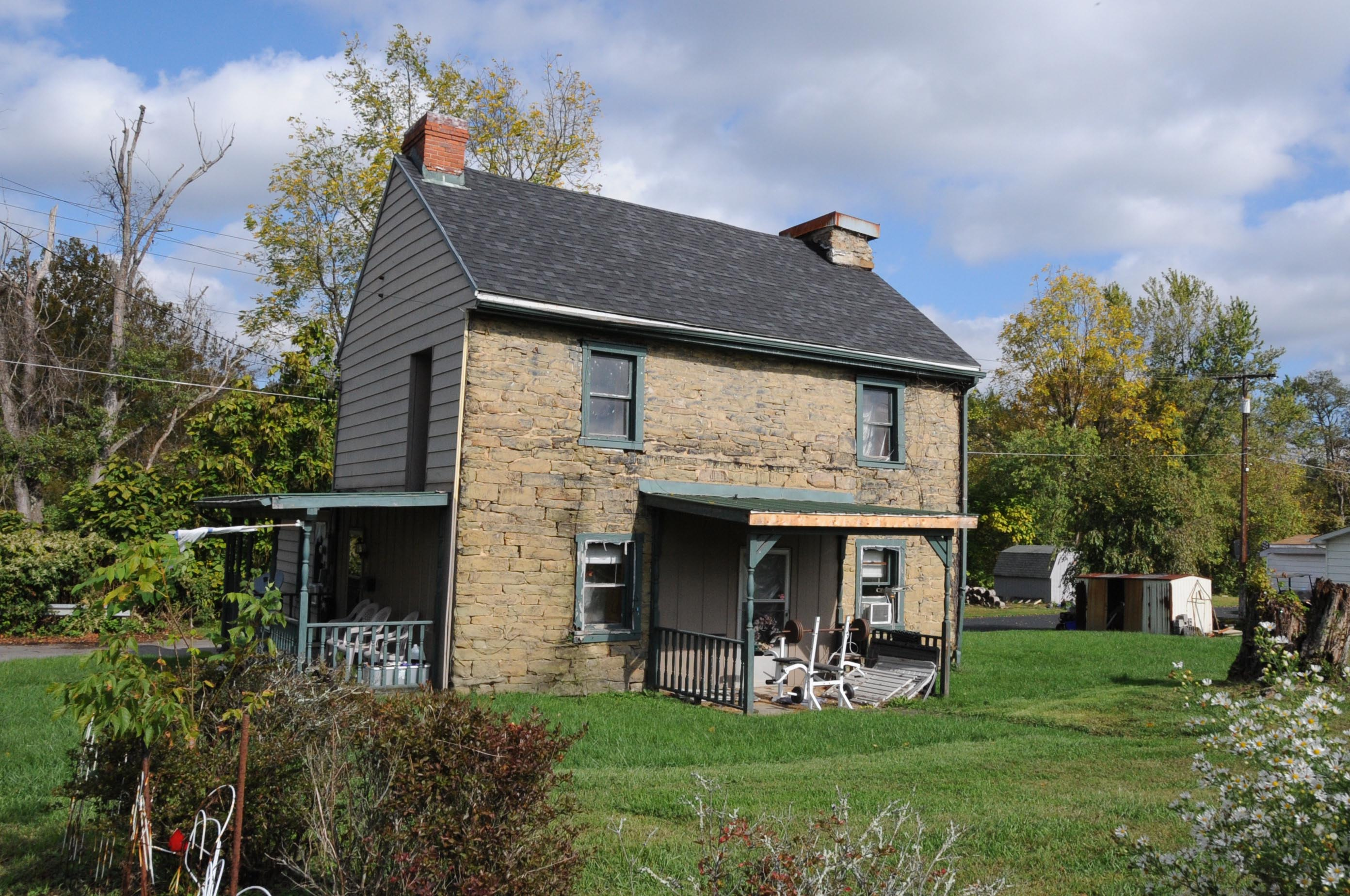 AARON SHINN HOUSE BUILT CIRCA 1821